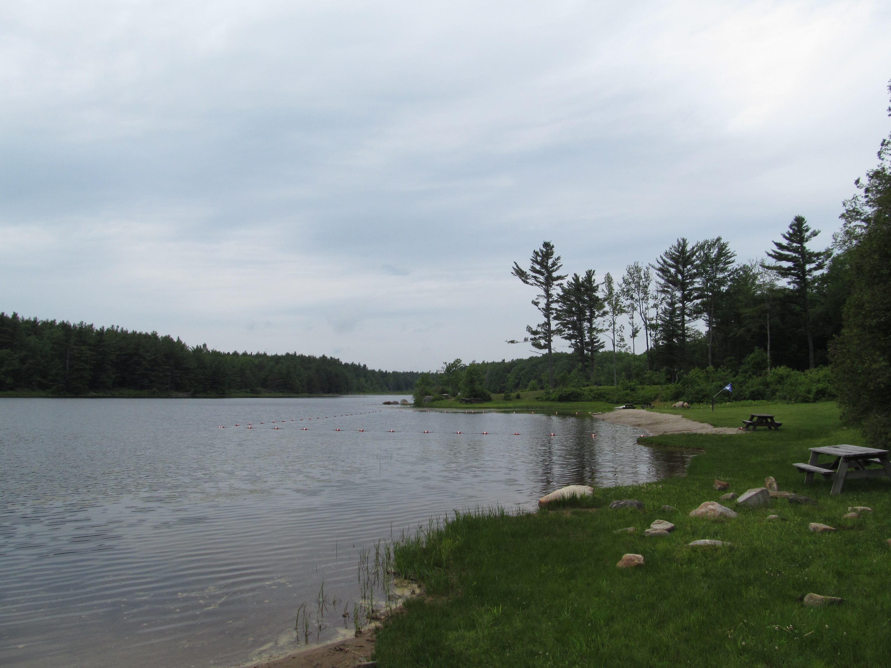 York Lake, Sandisfield State Forest, New Marlborough Massachusetts